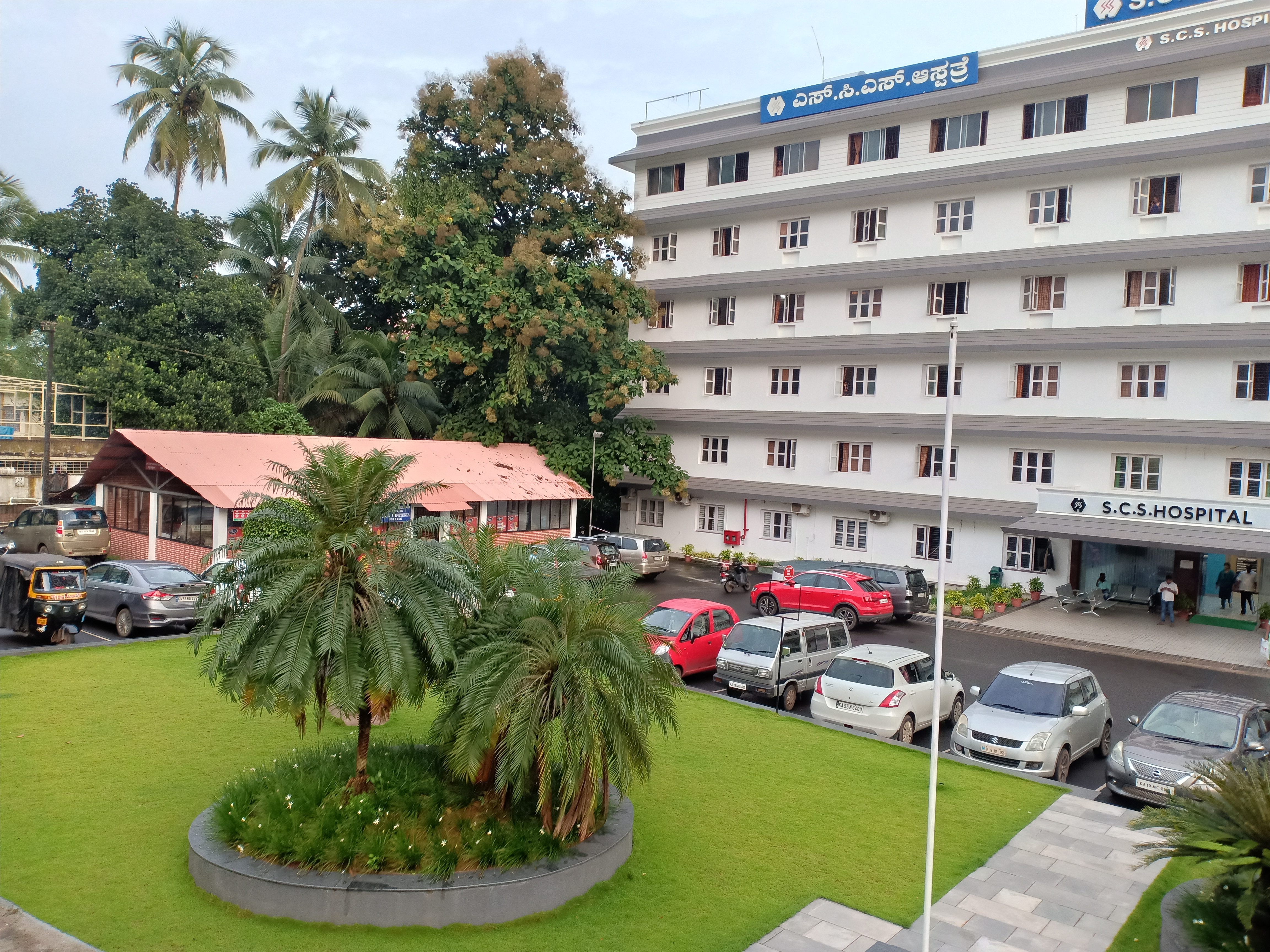 SCS Hospital at Balmatta-Bendoorwell Road in Mangalore - 2